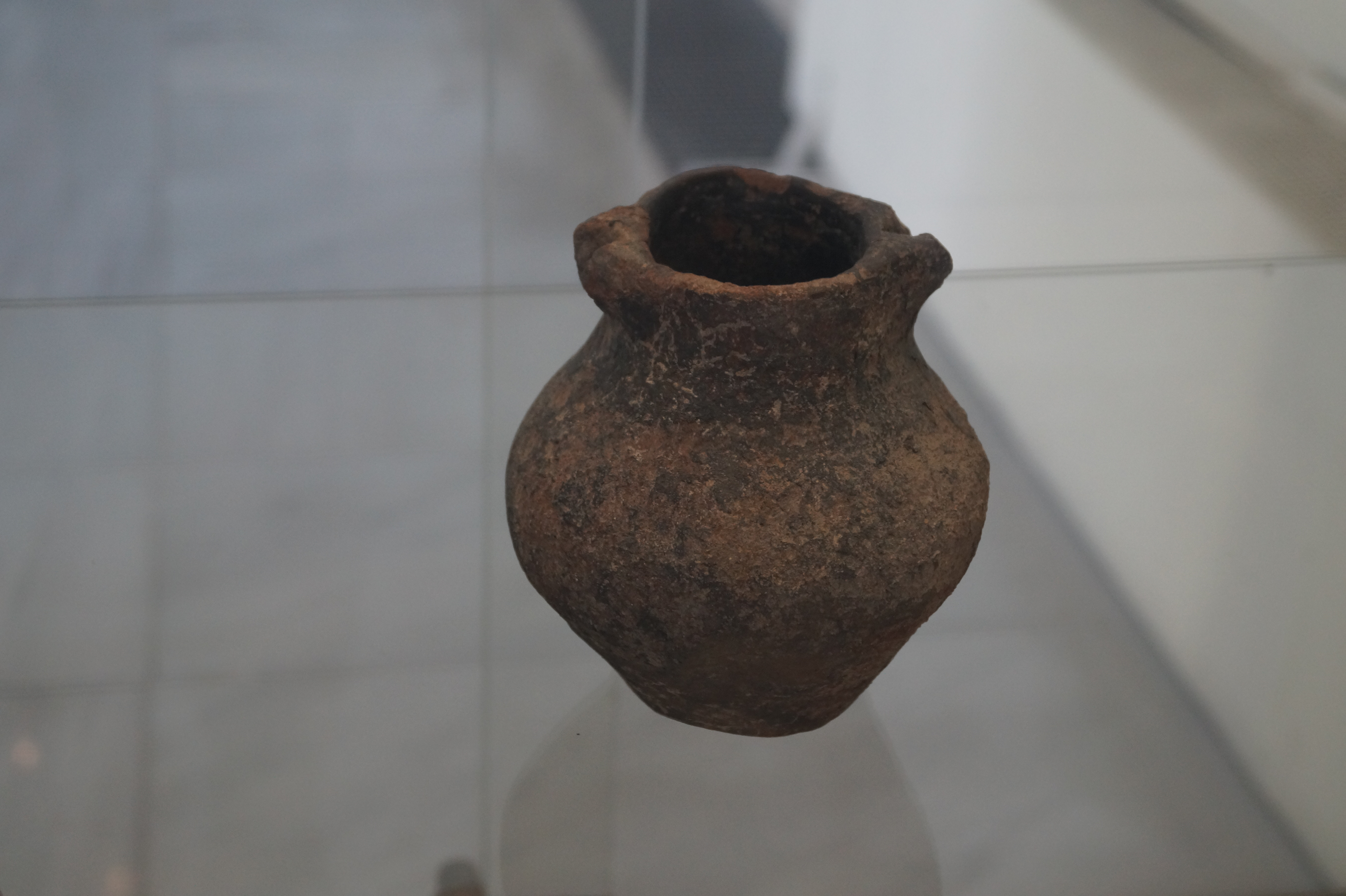 Kavala, Macedonia, Greece: Archaeological Museum of Kavala, Early Helladic vessel from Dikili Tash (3200-2200 BC)